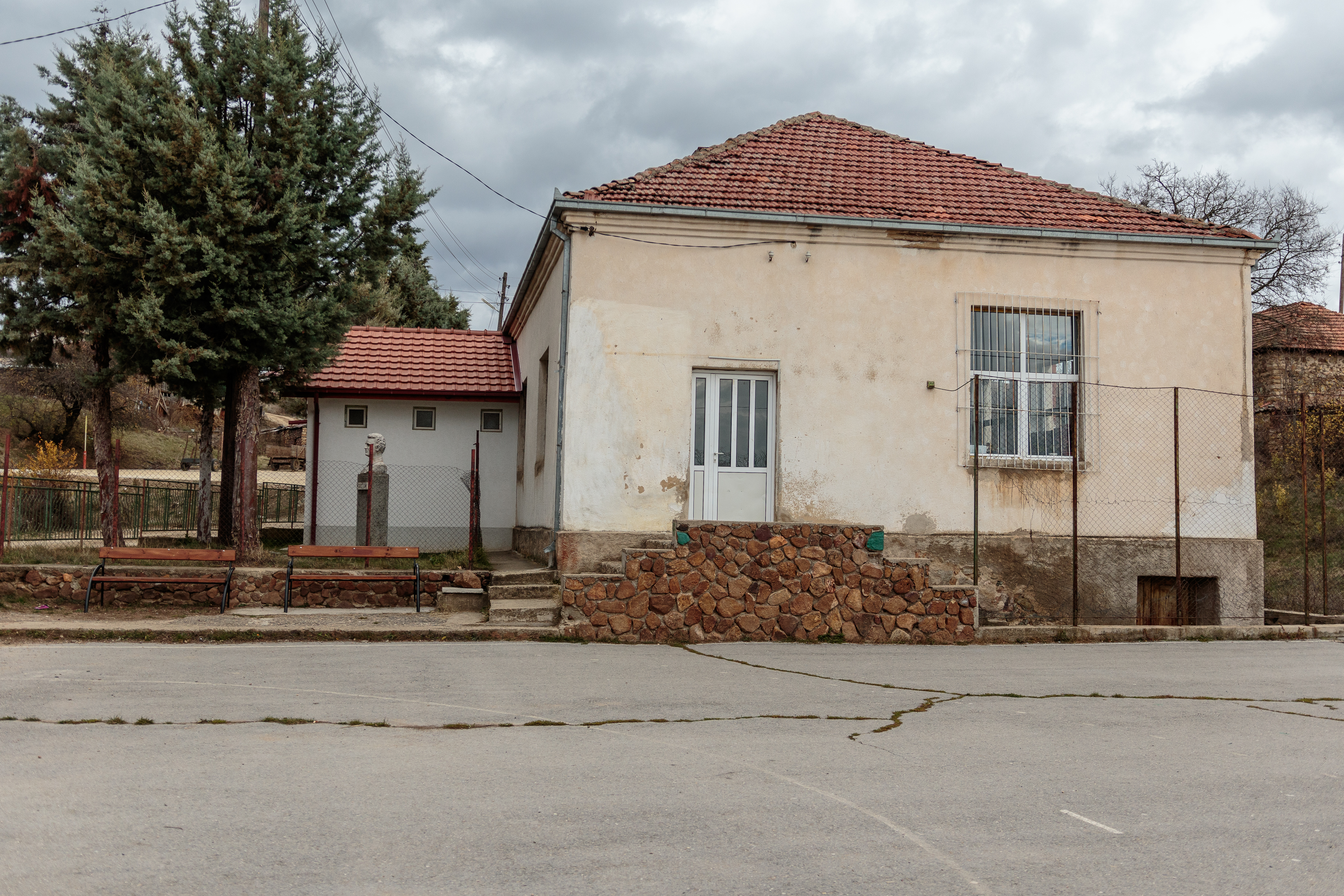 Primary school in the village of Umlena, Maleševija, Macedonia